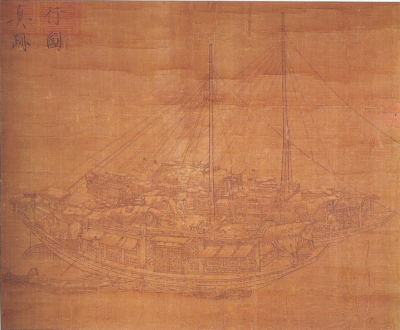 Traveling on the River in Clearing Snow, by Guo Zhongshu (c. 910–977 AD). This painting shows a pair of Chinese cargo ships (with stern-mounted rudders) accompanied by a smaller craft. It is painted on silk and dated to the early Song Dynasty period (960–1279 AD).